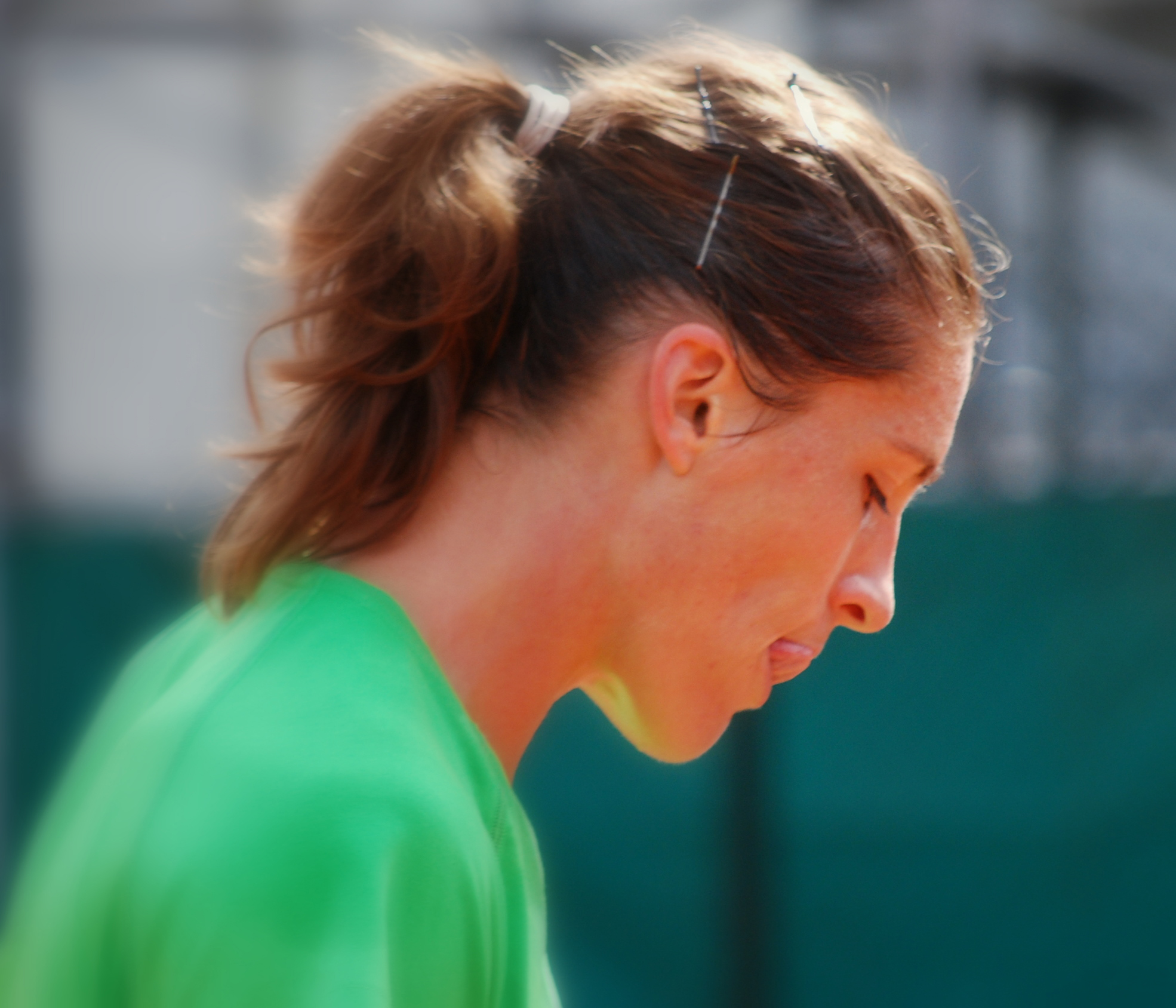 At the end of a practice session. Roland Garros 2011.